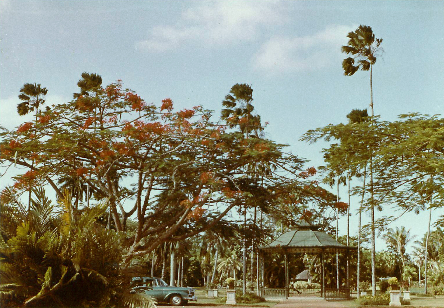 Flame trees in the Botanical Gardens of Georgetown (Guyana) - 1958